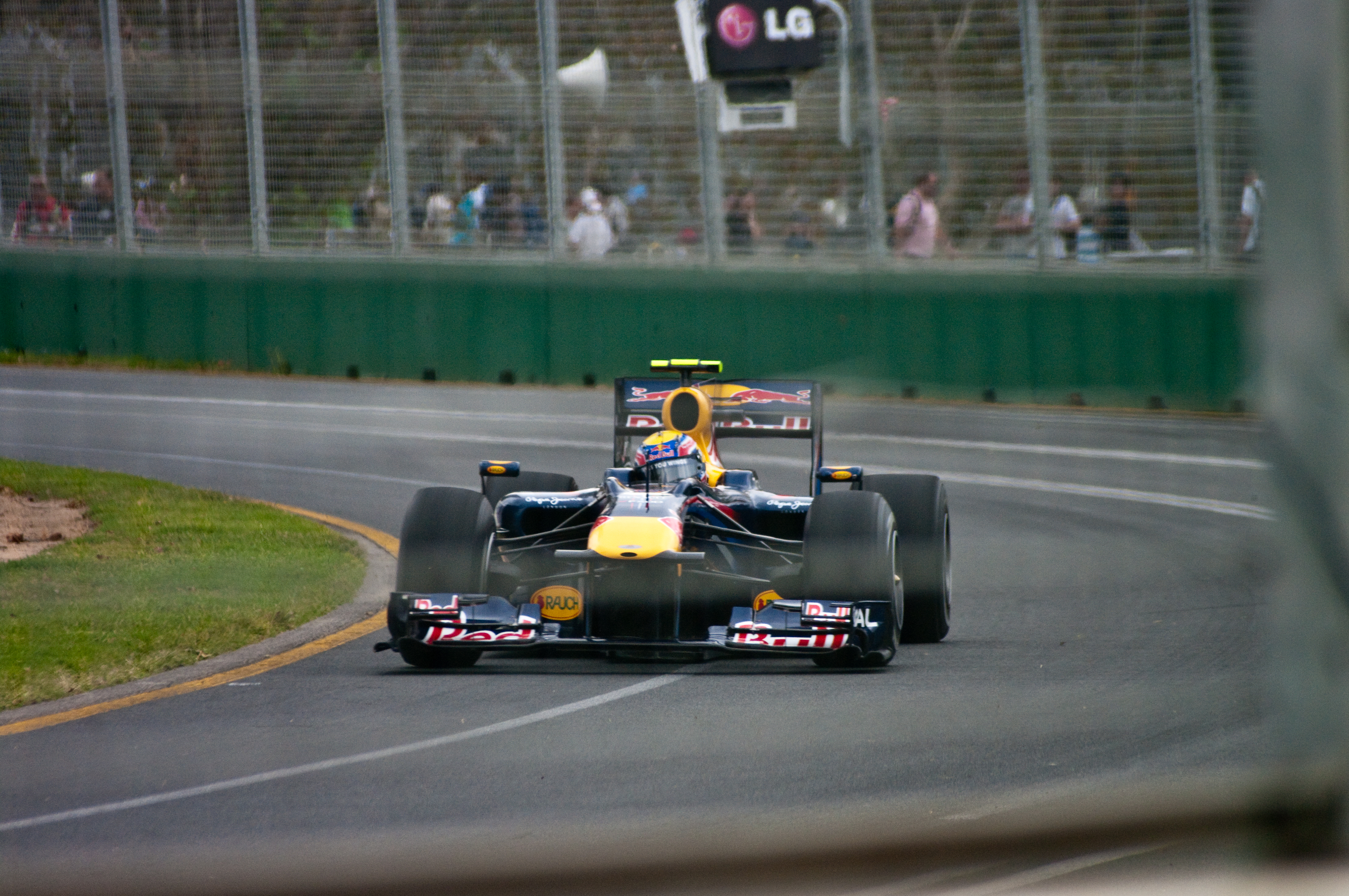 Mark Webber driving for Red Bull Racing at the 2010 Australian Grand Prix.